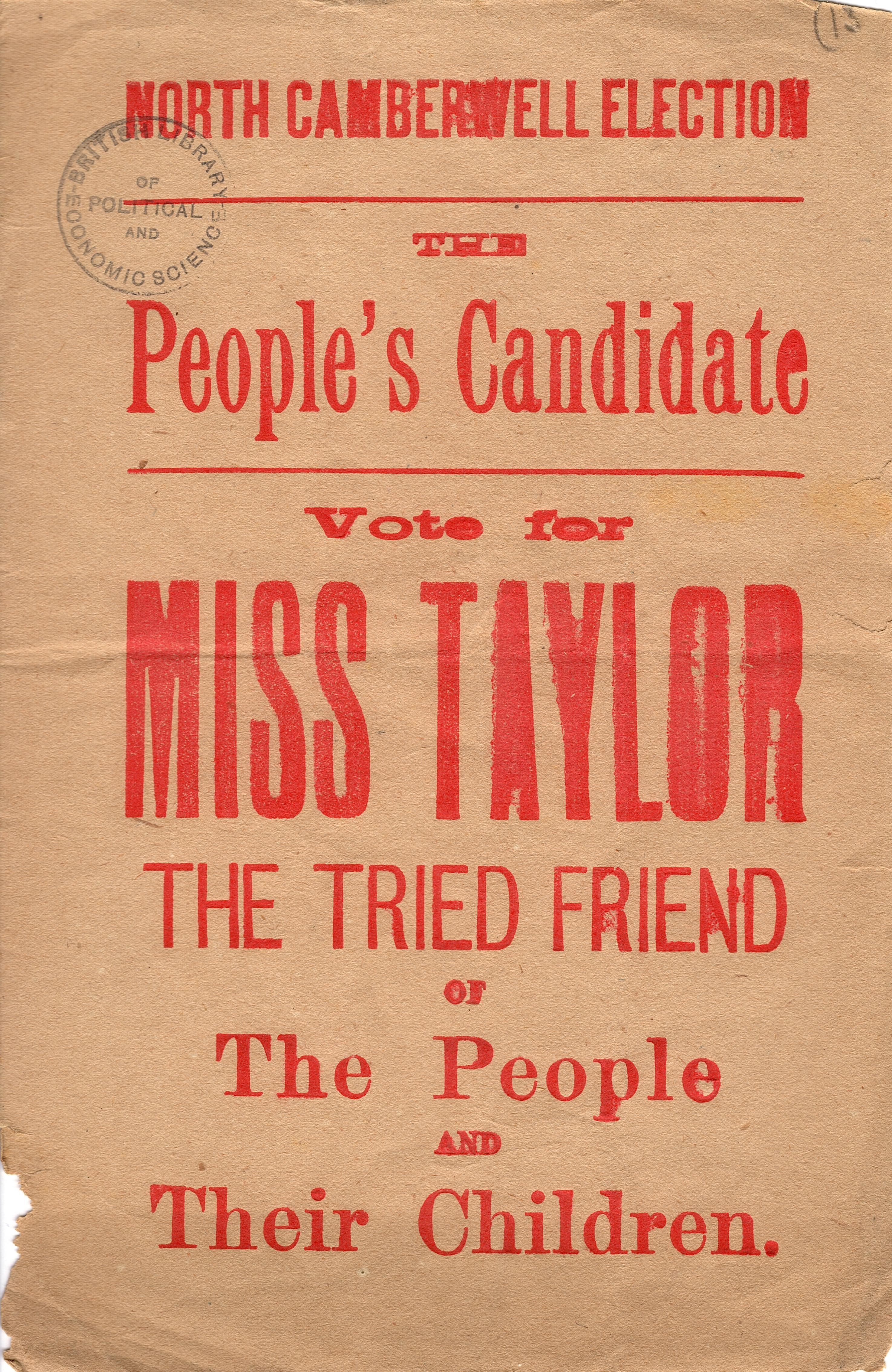 Mill Taylor 7 13 LSE Archives